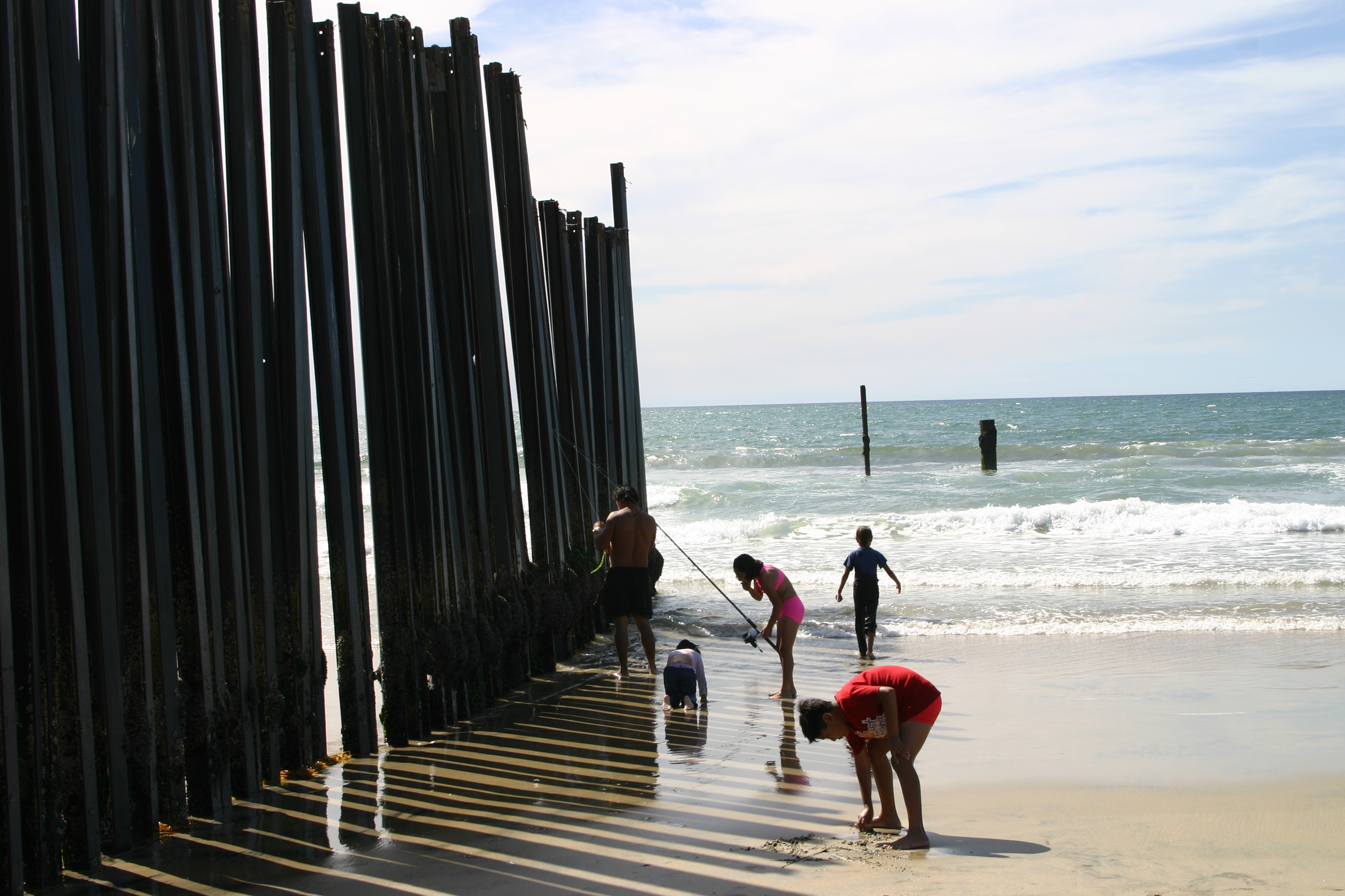 A Mexican family enjoys the beach at Border Field State Park on the US side. It is very easy to slip through the fence at will due to the last sections having been poorly constructed.